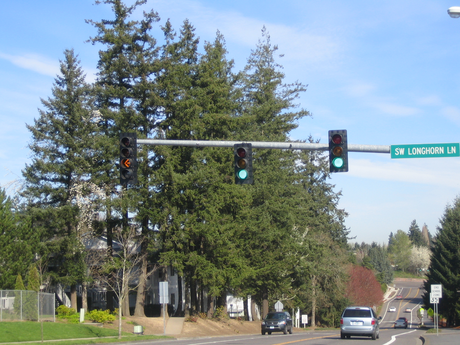 This is the first type of flashing protective/permissive left turn signal and is also the most common in Oregon. The signal here is displaying the flashing yellow phase (yield) in the second-to-bottom indication. This is the intersection of SW 125th Avenue and SW Longhorn Lane in Beaverton, Oregon.